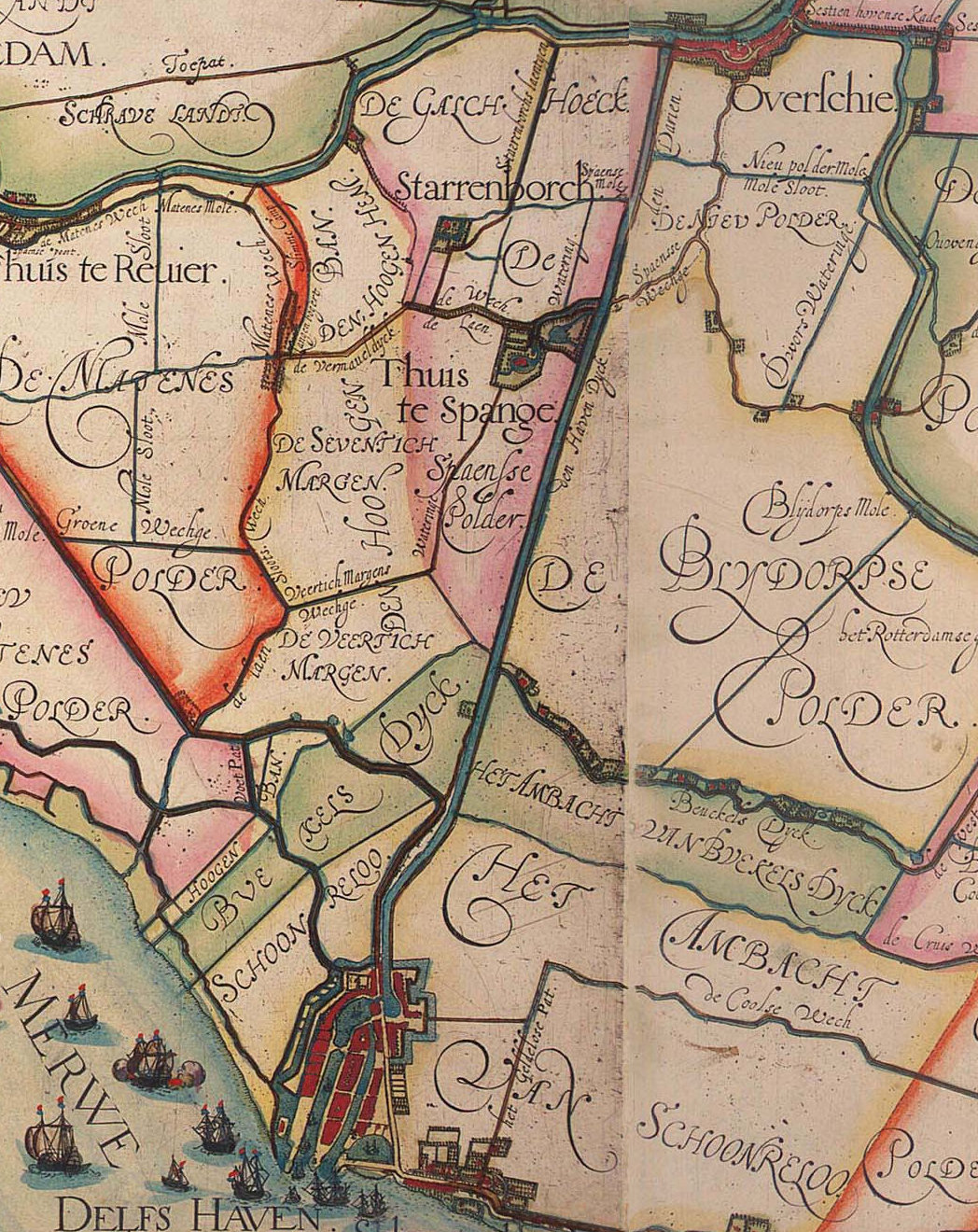 Map of Delfshavense Schie (Netherlands) in 1611